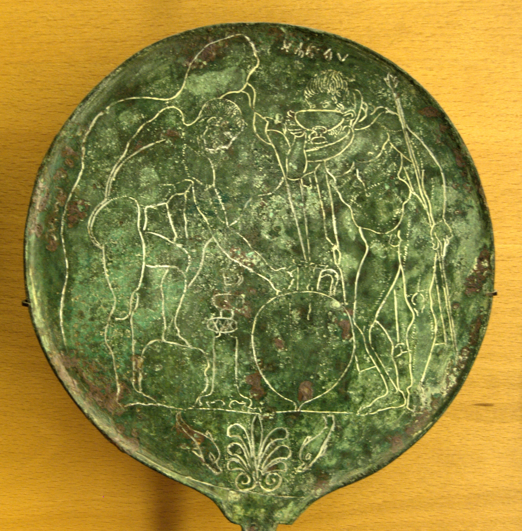 Urphe (Orpheus) and Lunc (Lynceus?) in a cave (?). Etruscan mirror, bronze, 4th–3rd century BC.